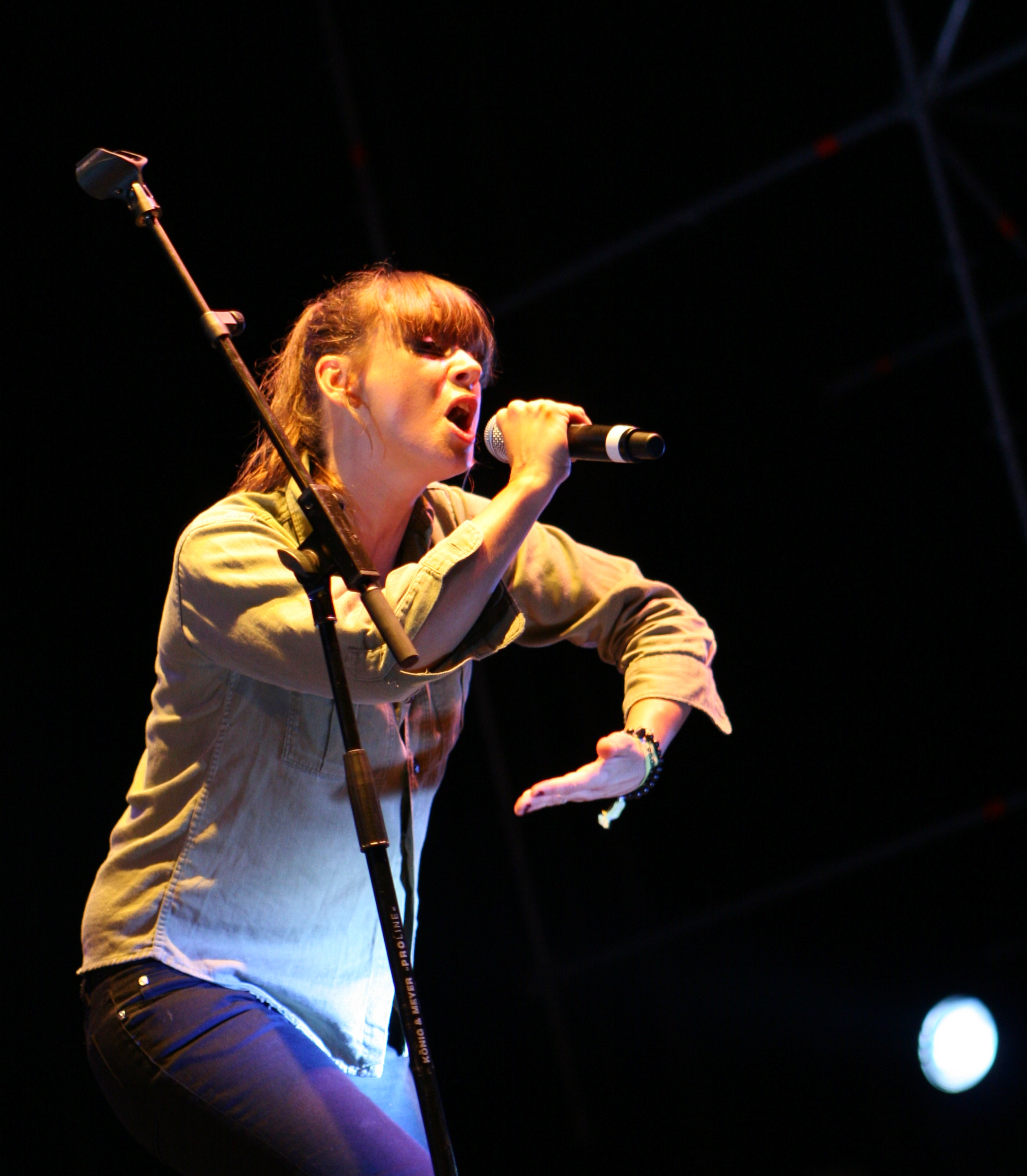 Cat Power performing in May 2008.